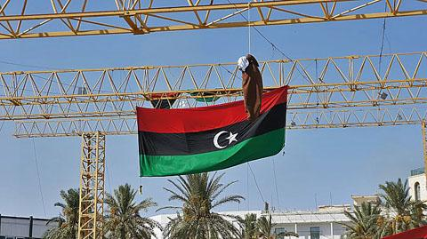 An effigy of Moammar Gadhafi hangs from a scaffold in Tripoli's Martyrs' Square, Libya, August 29, 2011